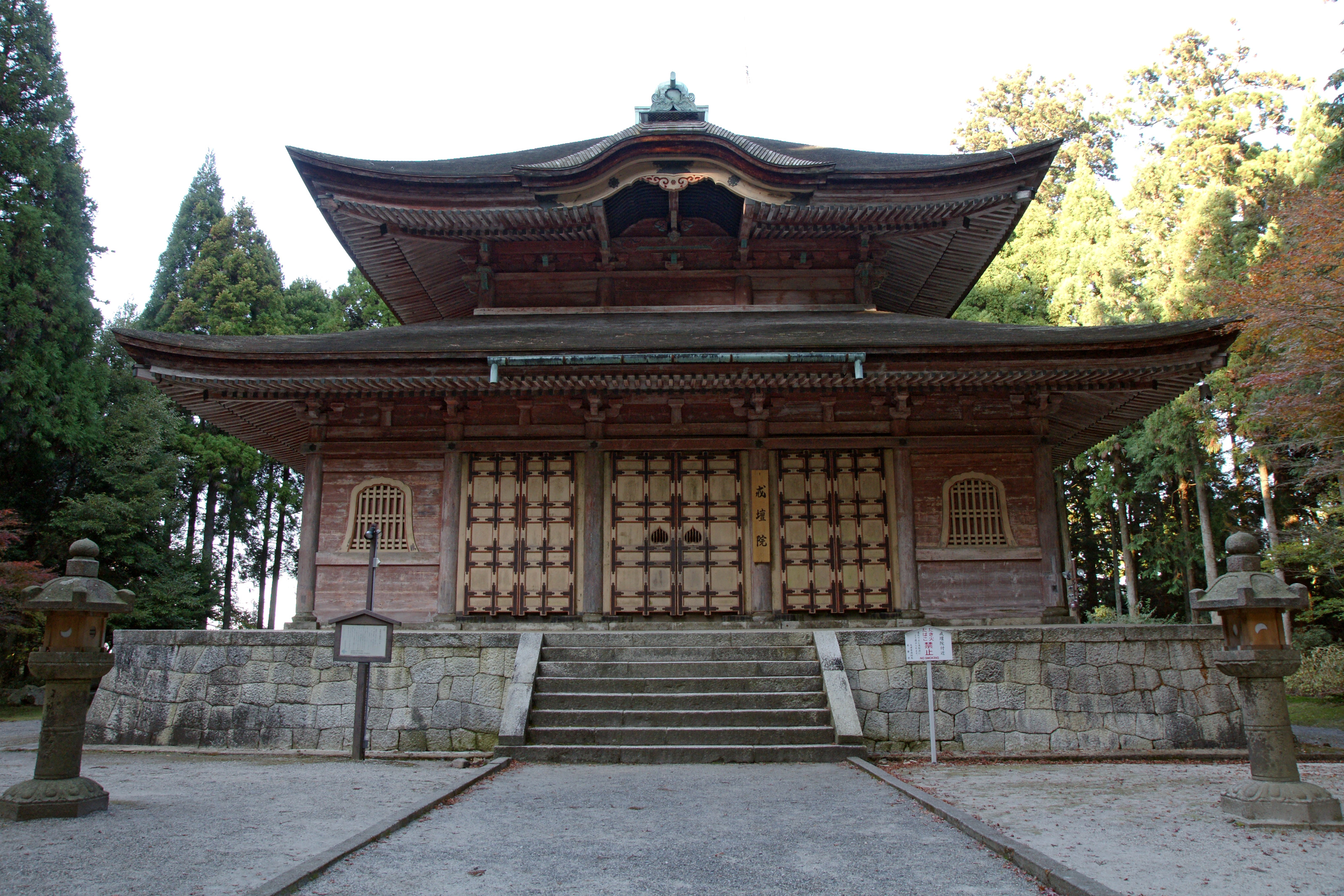 Kaidanin of Enryakuji Buddhist temple is a Japan's Important Cultural Property in Otsu, Shiga prefecture, Japan. It was rebuilt in 1678.